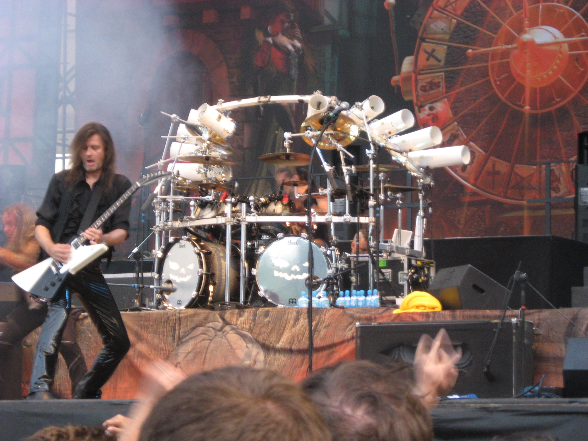 Helloween at Rockin' field festival at Milan (26 July 2008)